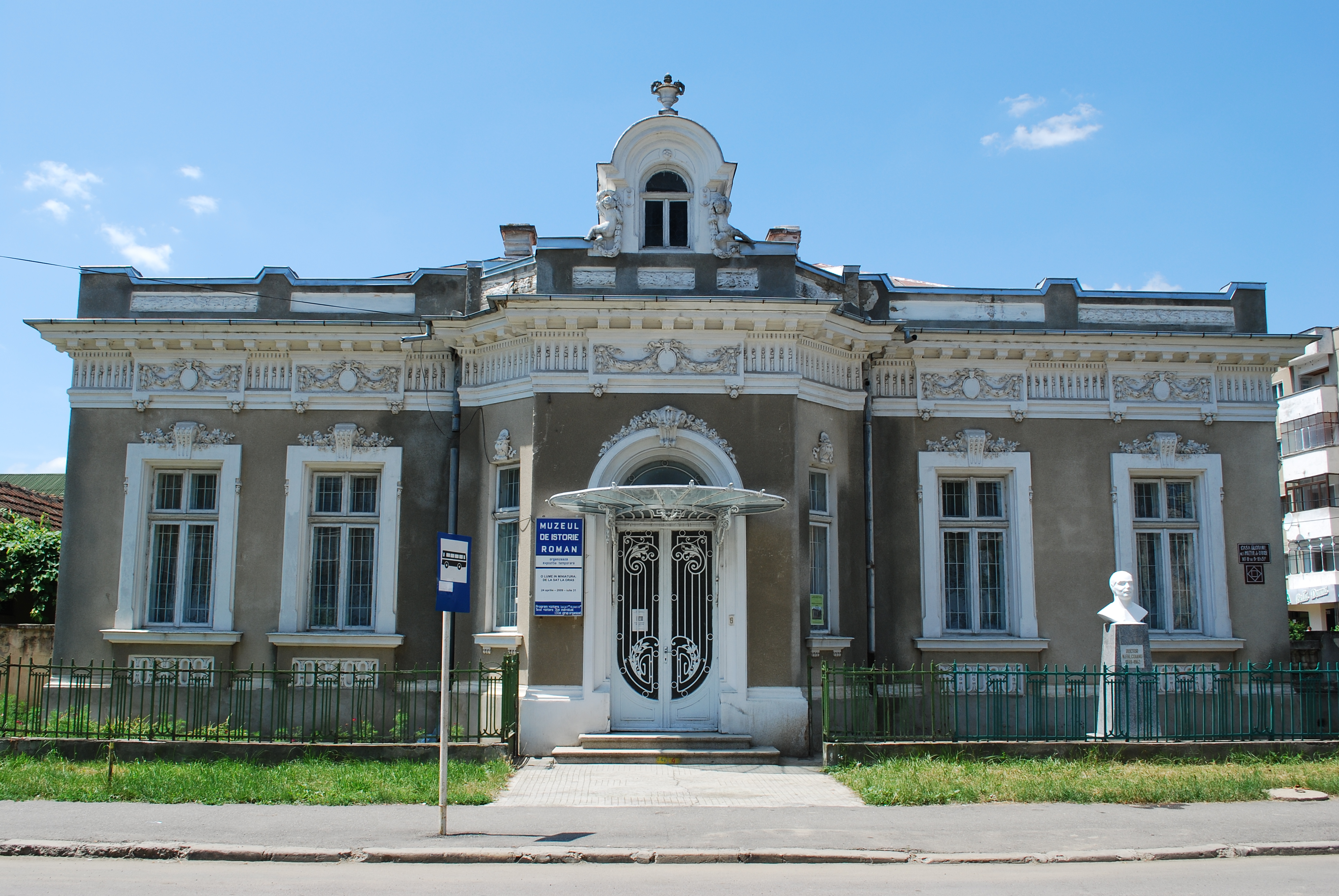 History Museum in Roman